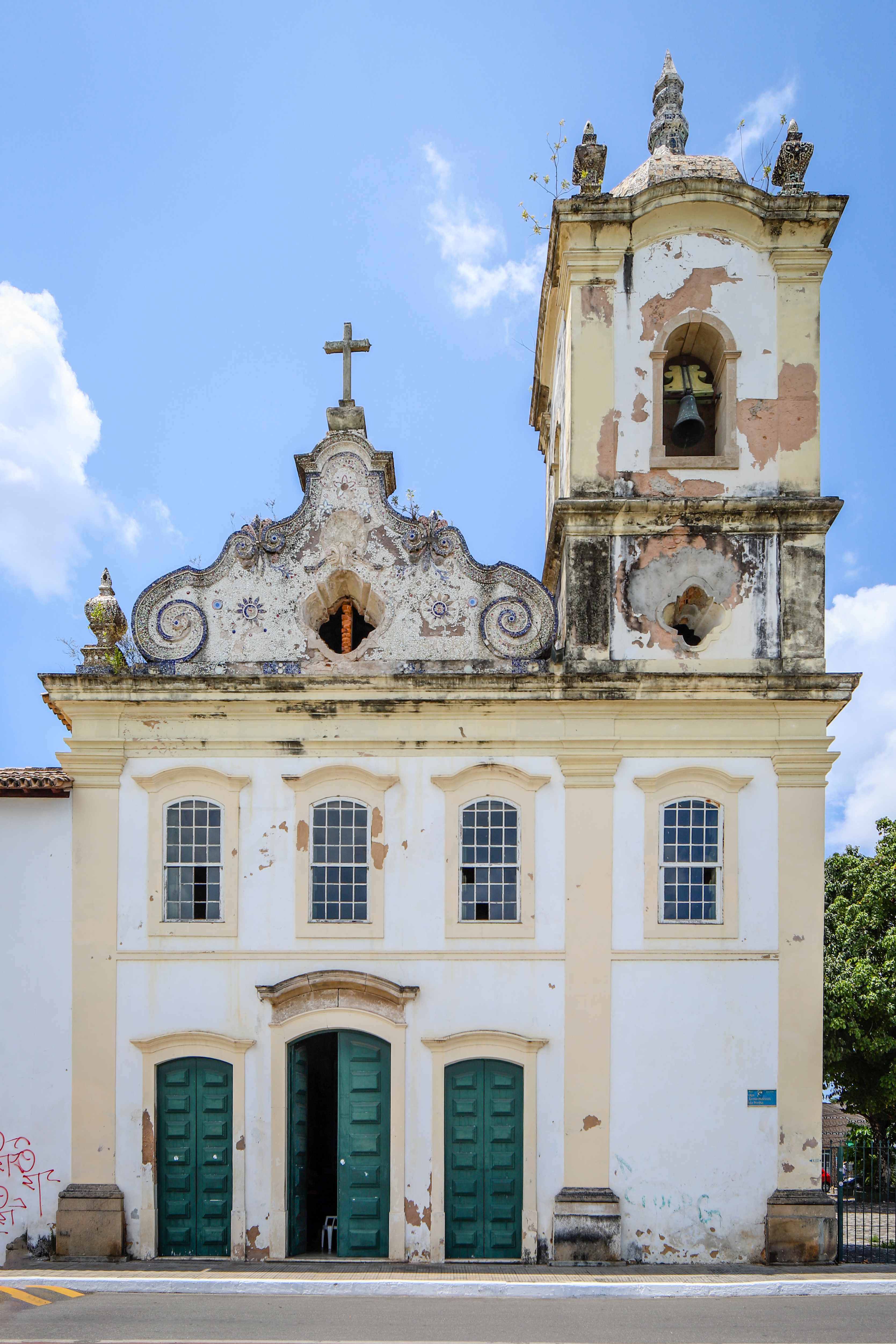 Façade, Igreja de Nossa Senhora da Penha, Salvador, Bahia, Brazil.